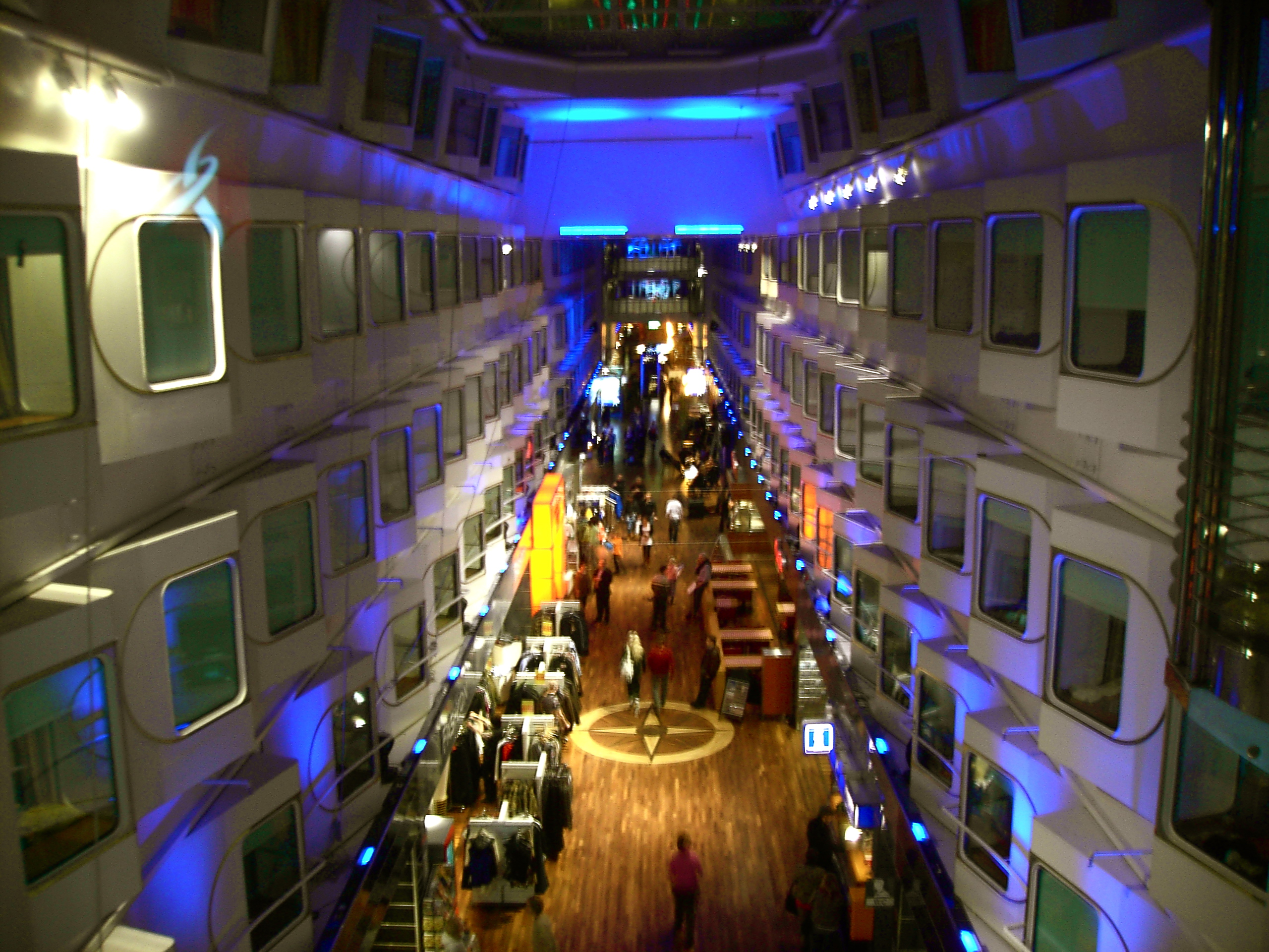 M/S Silja Symphony. One of my alternate homes, together with Silja Serenade and previously Viking Line's Gabriella and Mariella.